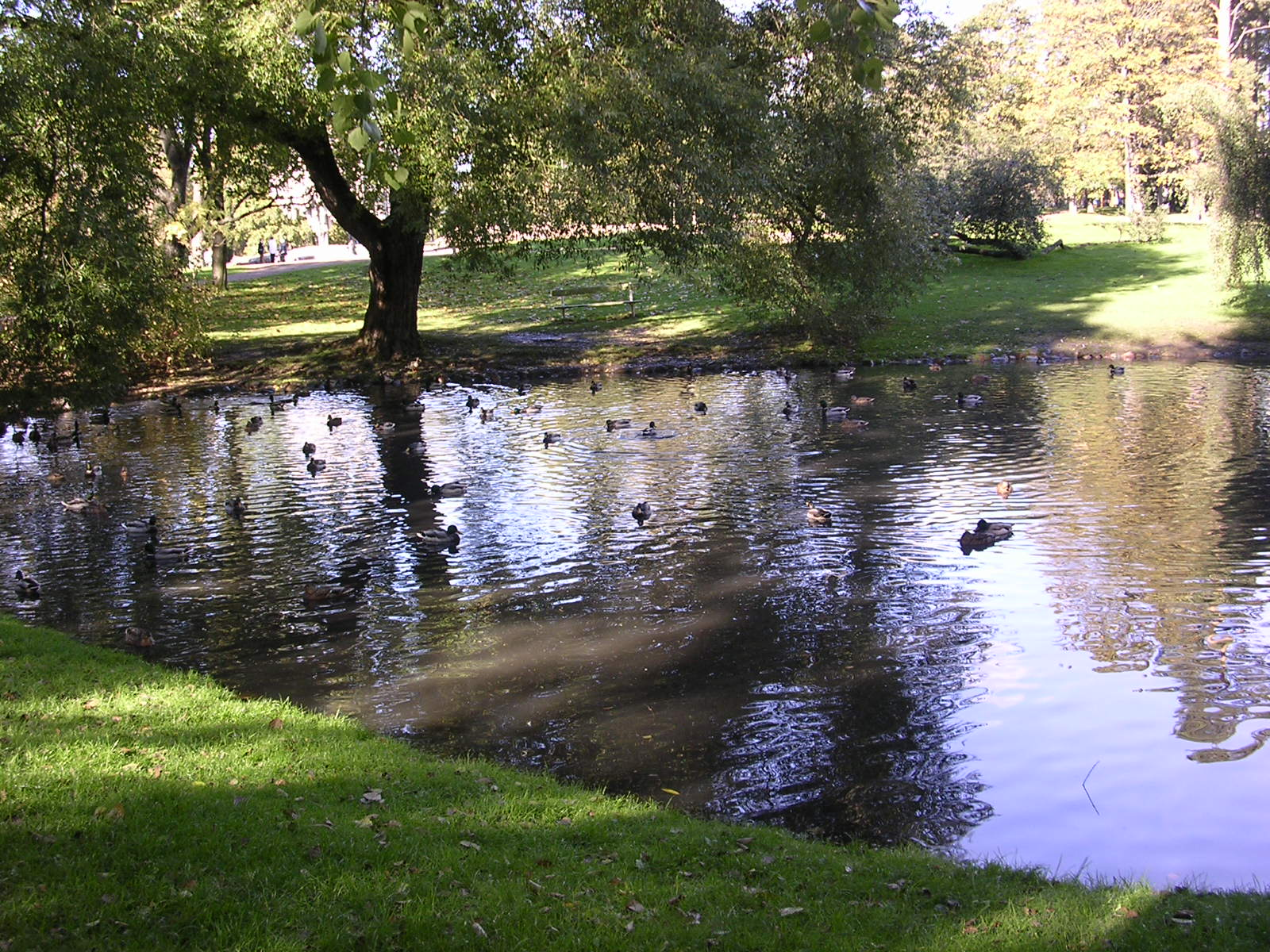 The small ponds near the Sibelius Monument